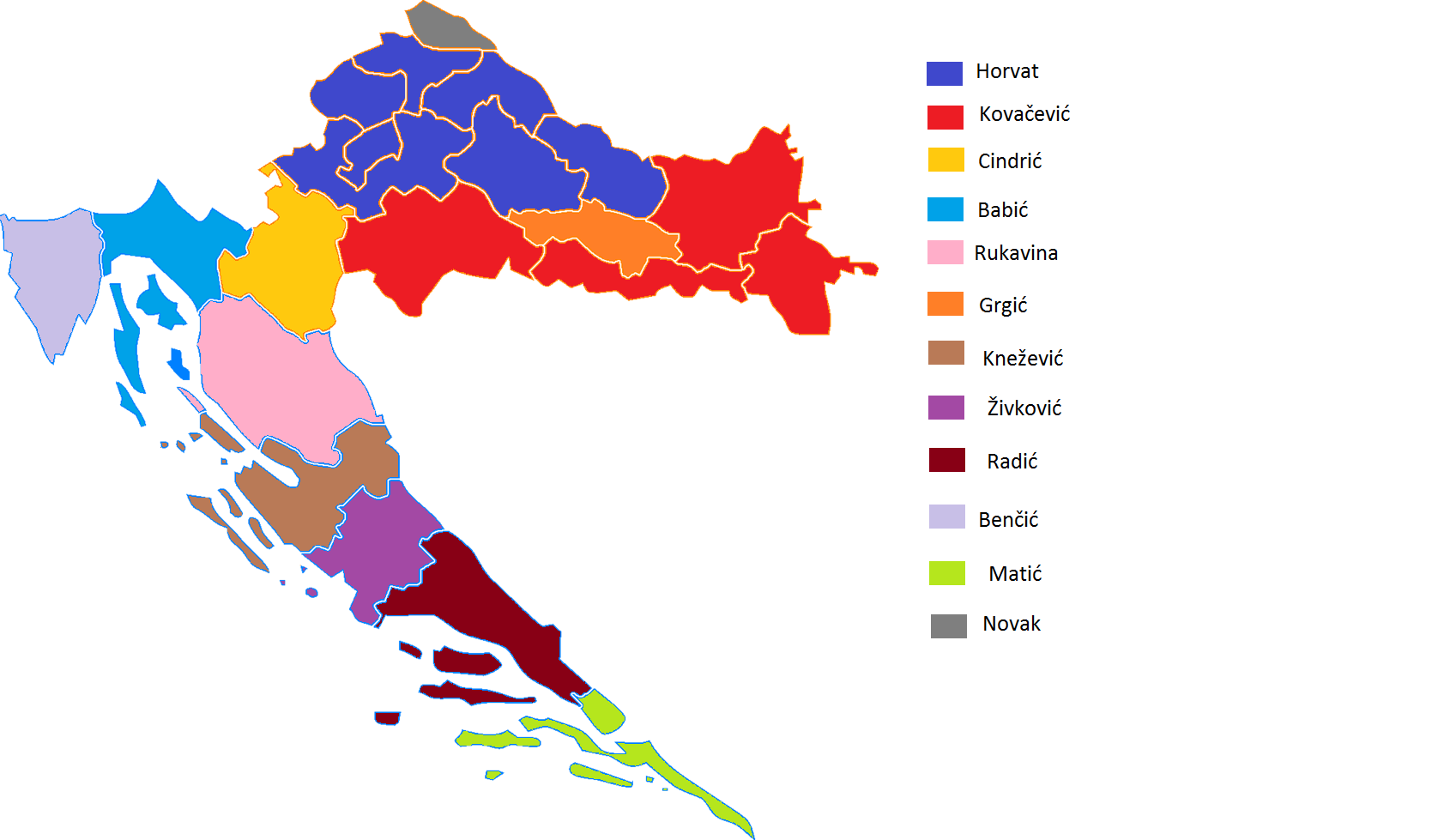 the most commons surnames in Croatia by county, according to 2011 census